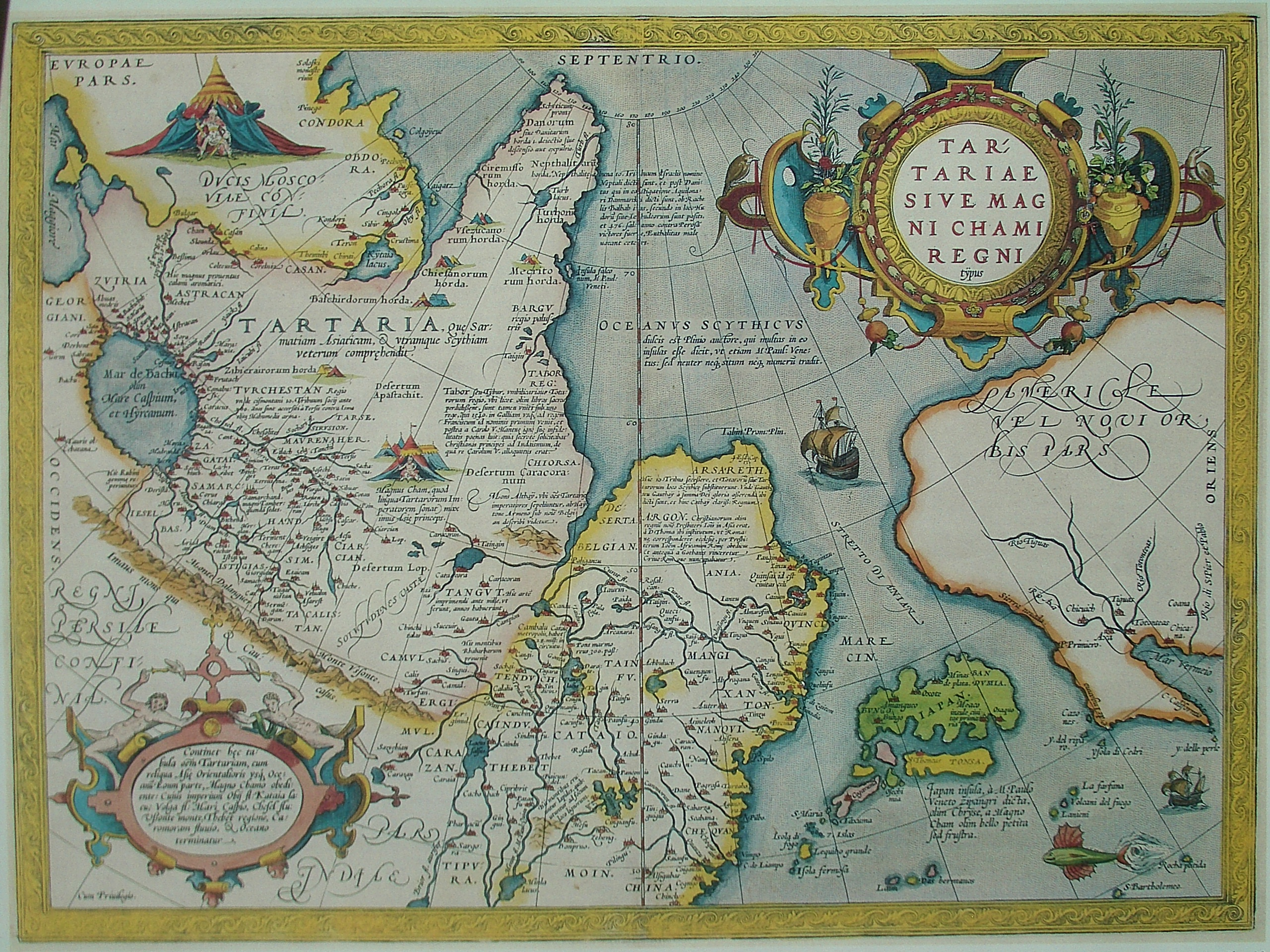 Tartary, or the Kingdom of the Great Khan